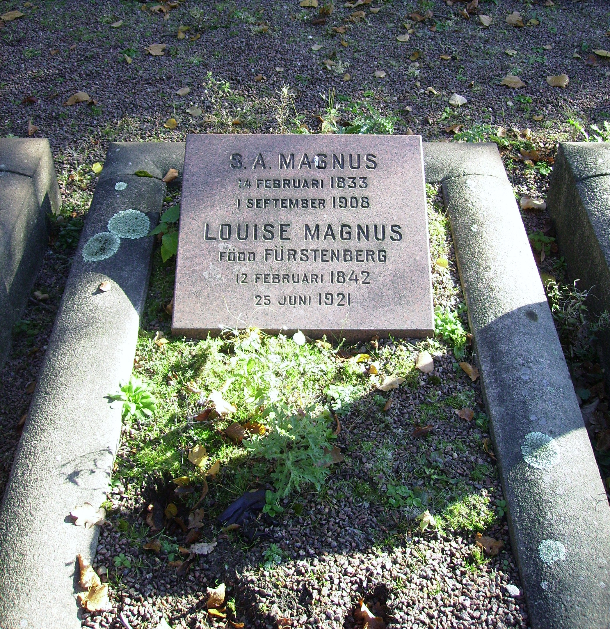 Picture of Simon Alberg Magnus (1837-1908) grave at Mosaiska begravningsplatsen at Svingeln in Göteborg